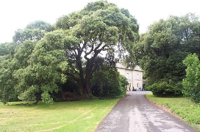 Scolton Manor. Pembrokeshire's County Museum is a Victorian manor house set in 60 acres of park and woodland.